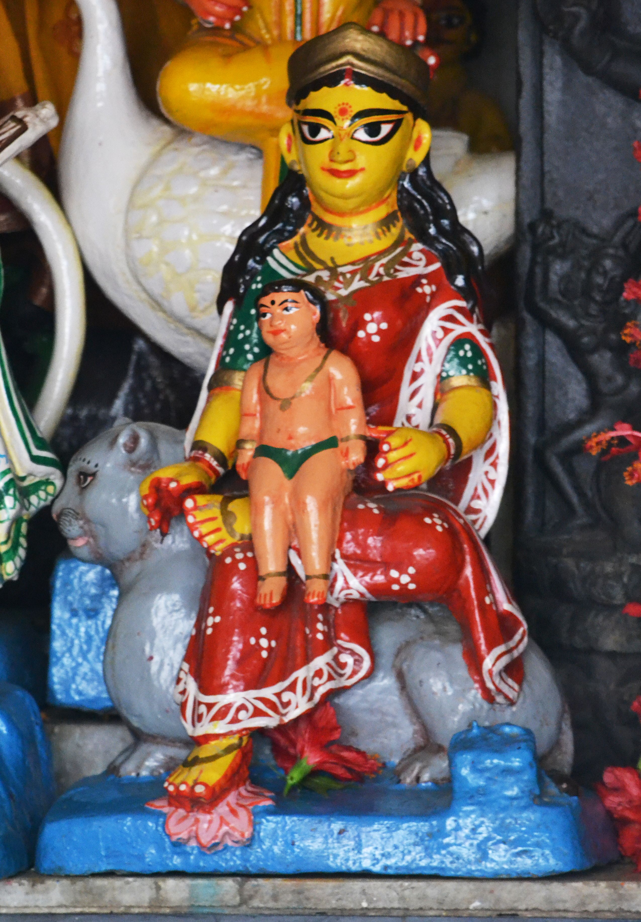 Goddess Shashthi in a temple near Bagbazar, Kolkata.